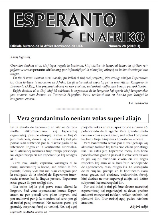 Cover page of “Esperanto en Afriko”, issue #28, 2016